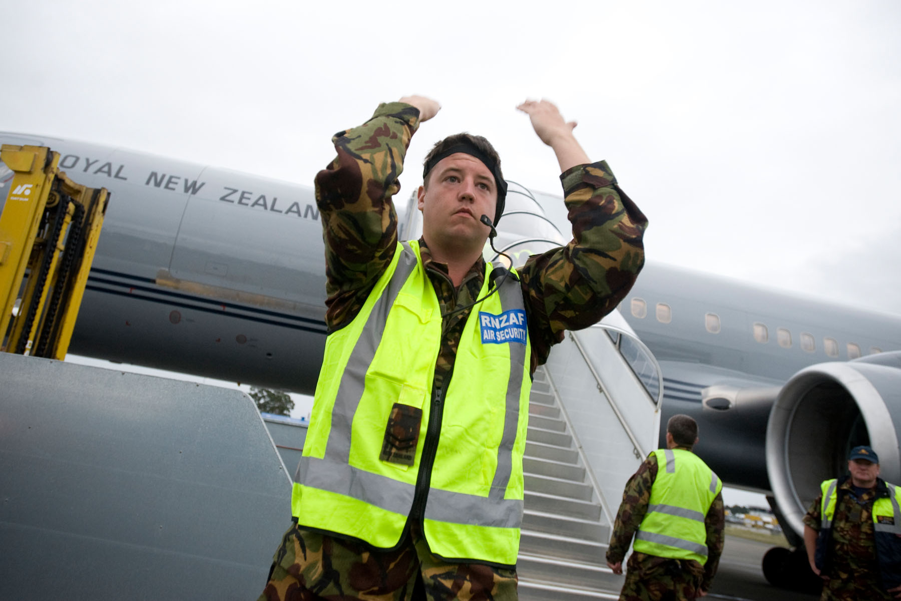 Air Force, Army and Navy personnel, including Medics, Air Crew, Force Protection and Logistics Specialists, perform an aero-medical evacuation for Christchurch rest home residents affected by the Canterbury Earthquake 20110225_WN_S1015650_0025 Crown Copyright 2011, NZ Defence Force – Some Rights Reserved.